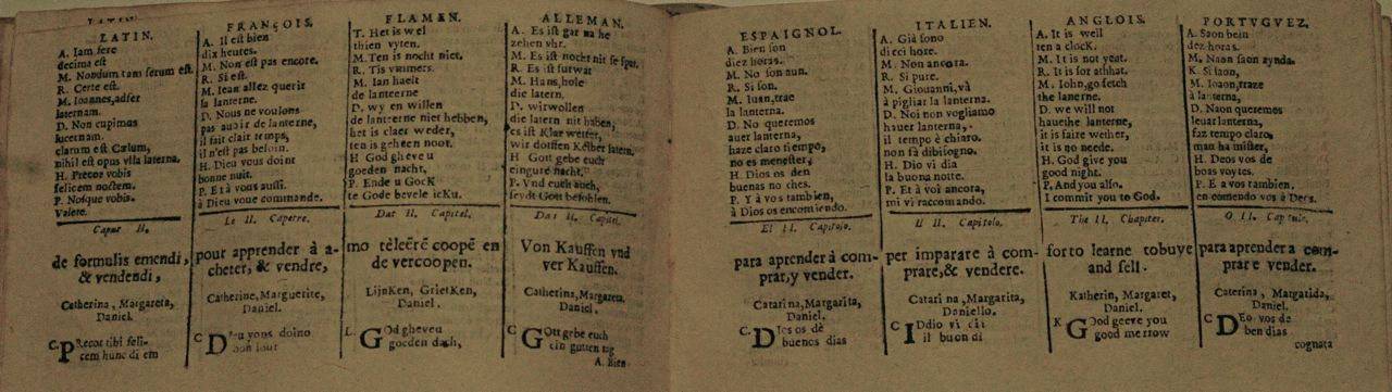 Own picture of the book Colloquia et Dictionariolum octo linguarum. 1677